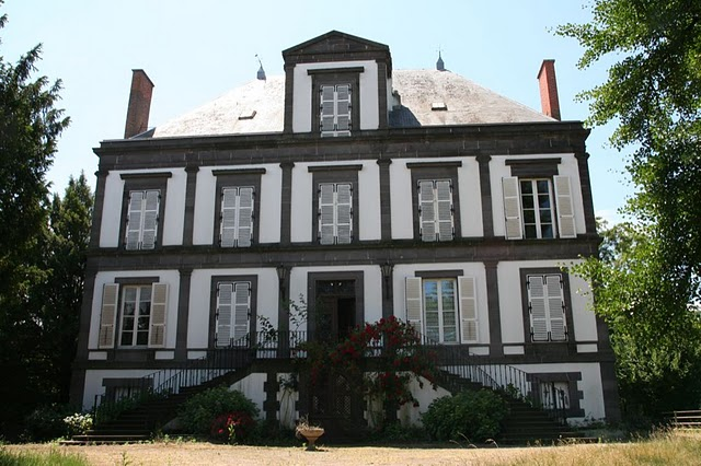 Manoir de la Manantie, Lezoux, France